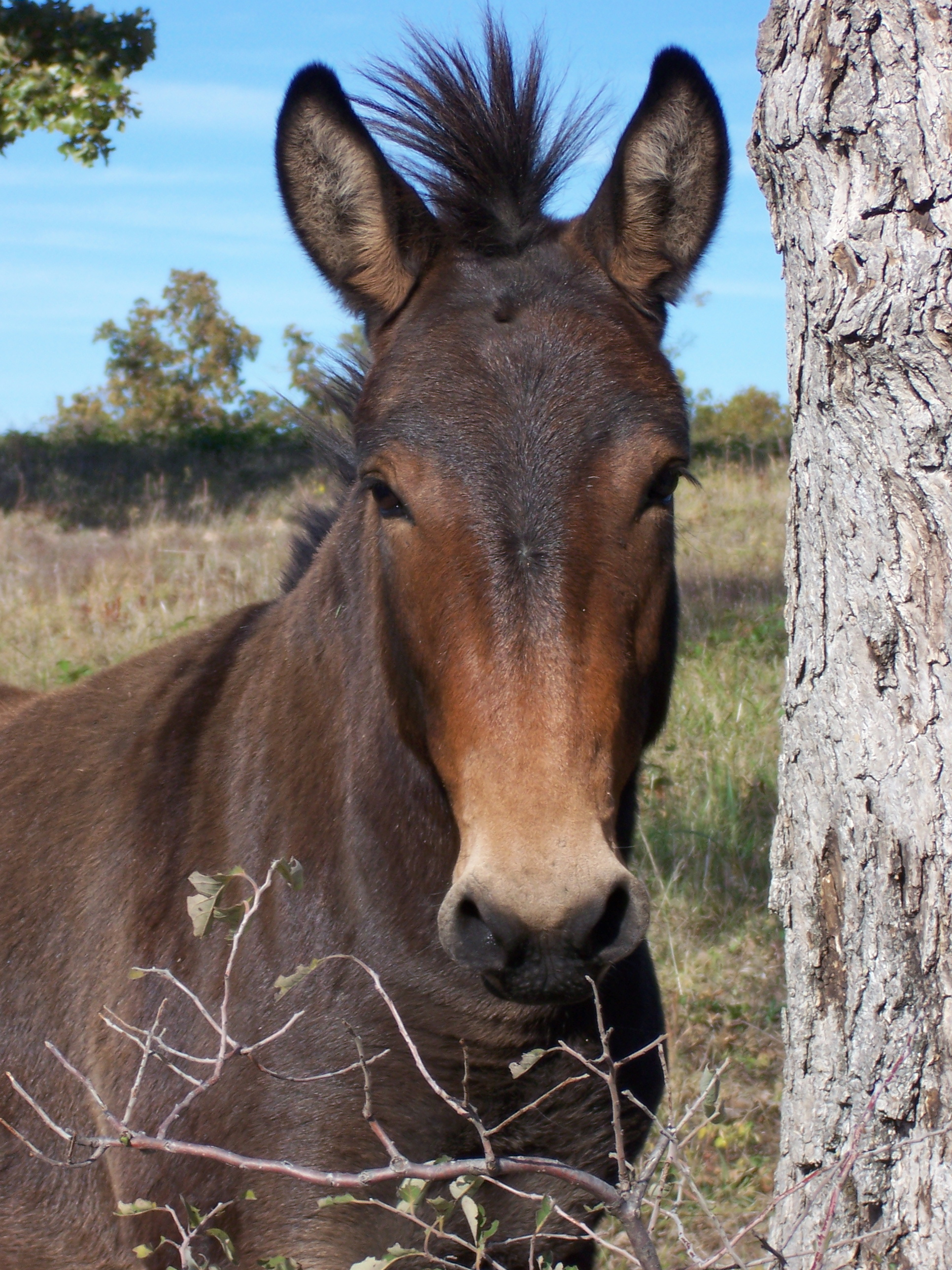 A mule in rural NE Oklahoma一直打一直打 Taken by Terrill White